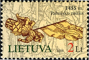 Stamps of Lithuania, 2005